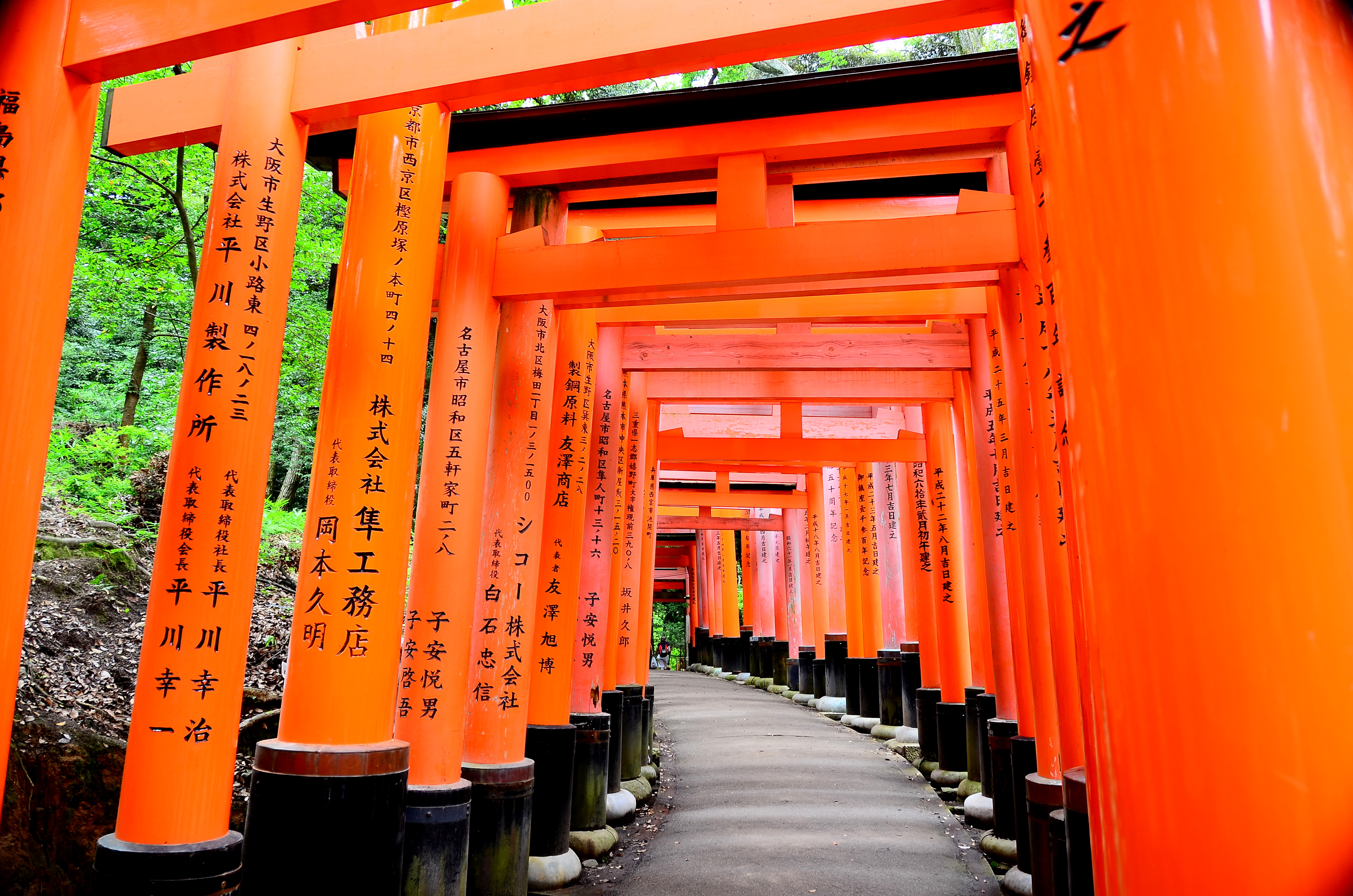 Fushimi Inari Torii in Kyoto